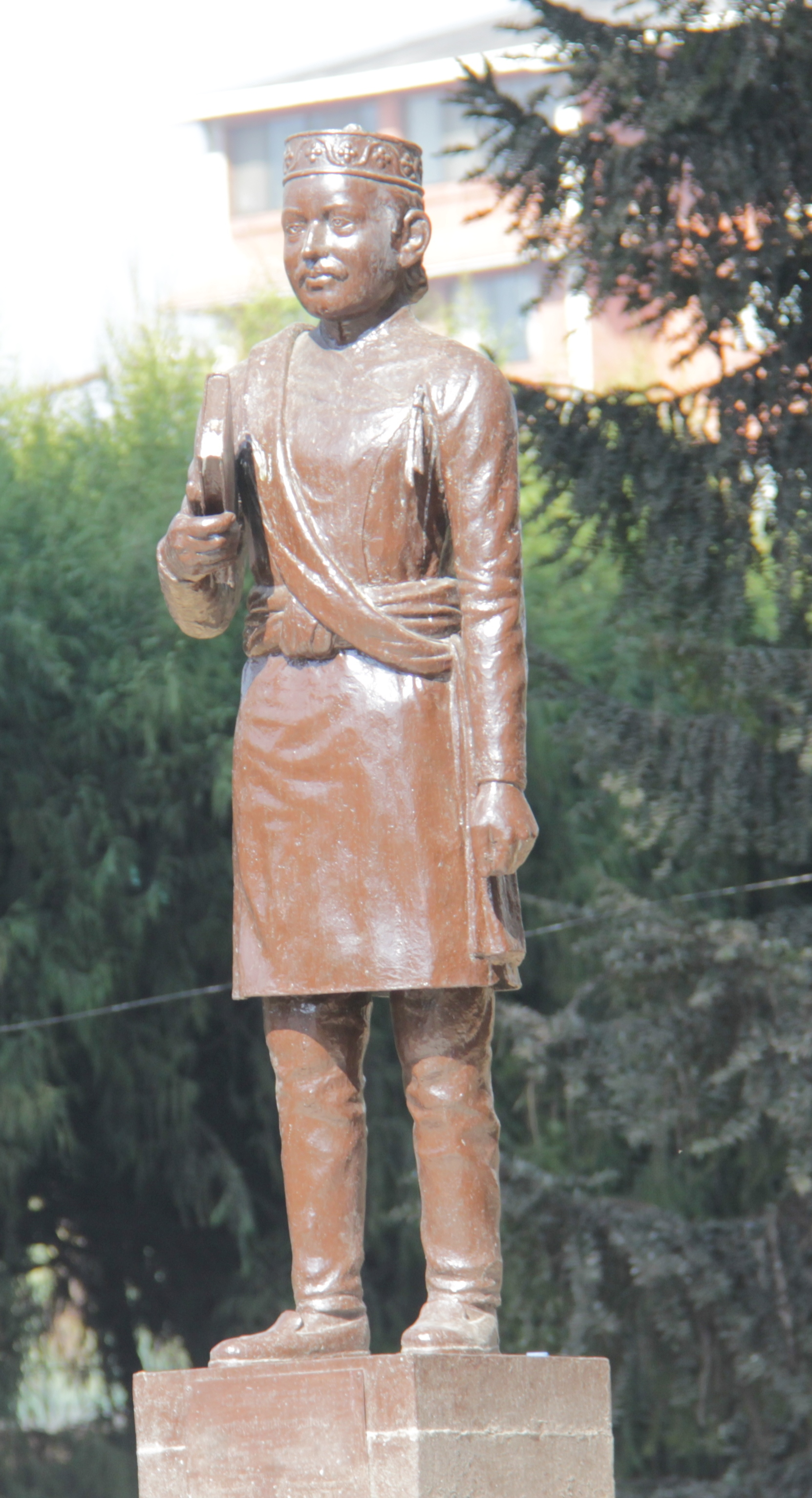 Poet Bhanubhakta statue at Nepal Academy Kathmandu